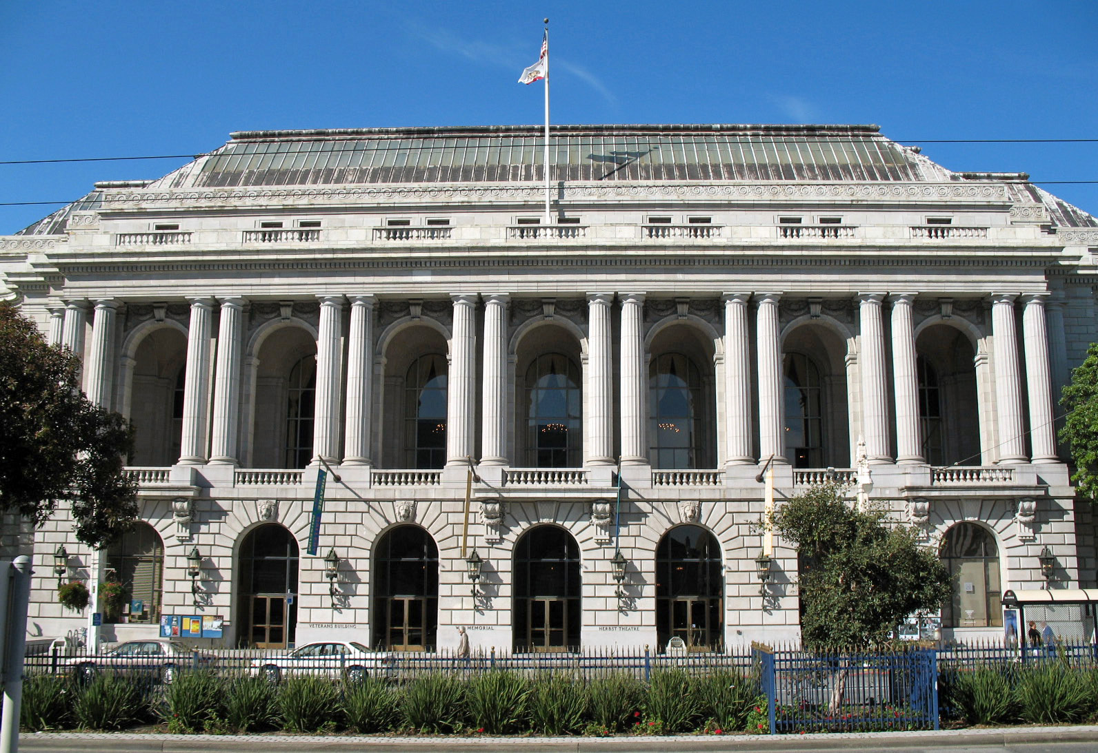 National Register of Historic Places in San Francisco, California. War Memorial Veterans Building, 459 Van Ness Ave, San Francisco, California, USA (home to the Herbst Theatre) Photographed 2008-03-08 by Mike Hofmann from the sidewalk on the east side of Van Ness Ave in front of City Hall. The War Memorial complex includes the Veterans Building, the Opera House and War Memorial Court. All are part of the San Francisco Civic Center Historic.